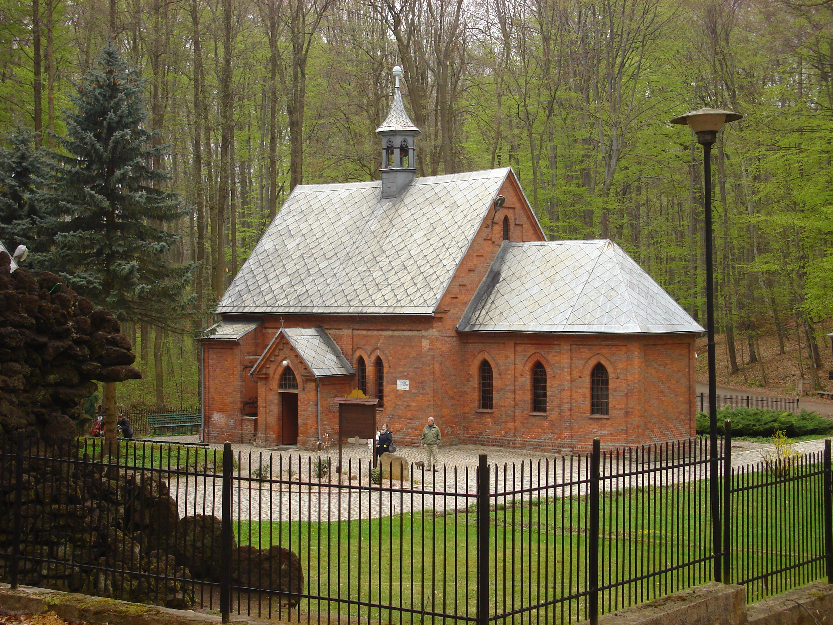 church